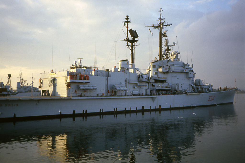 Italian Navy Cruiser Caio Duilio (C 554) at her berth in Taranto, 1985